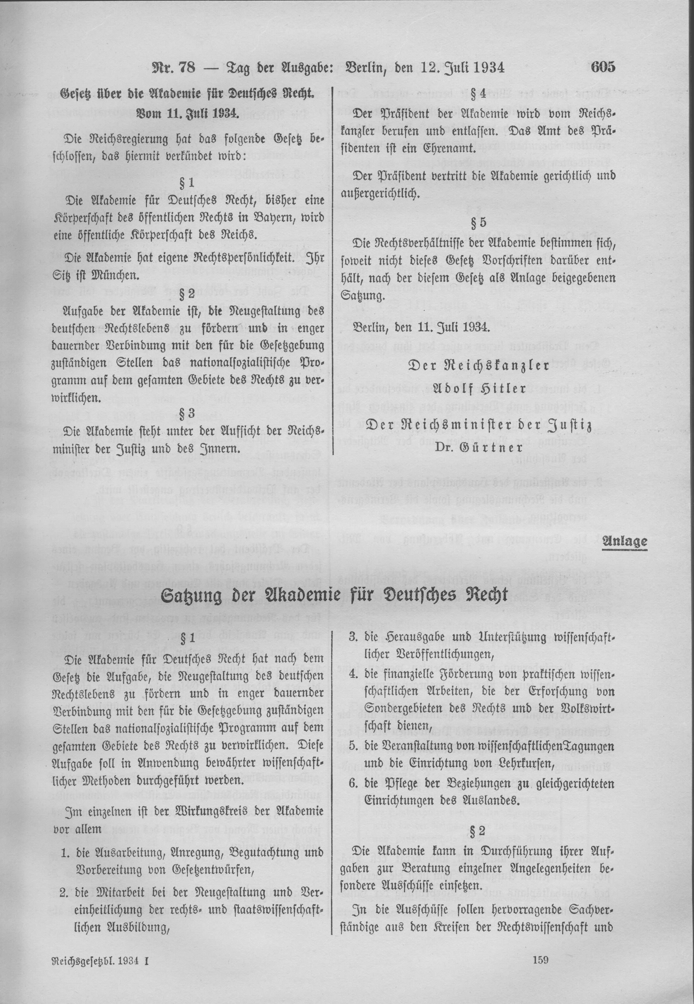 Scan from the Imperial Law Gazette of Germany, 1934, part 1